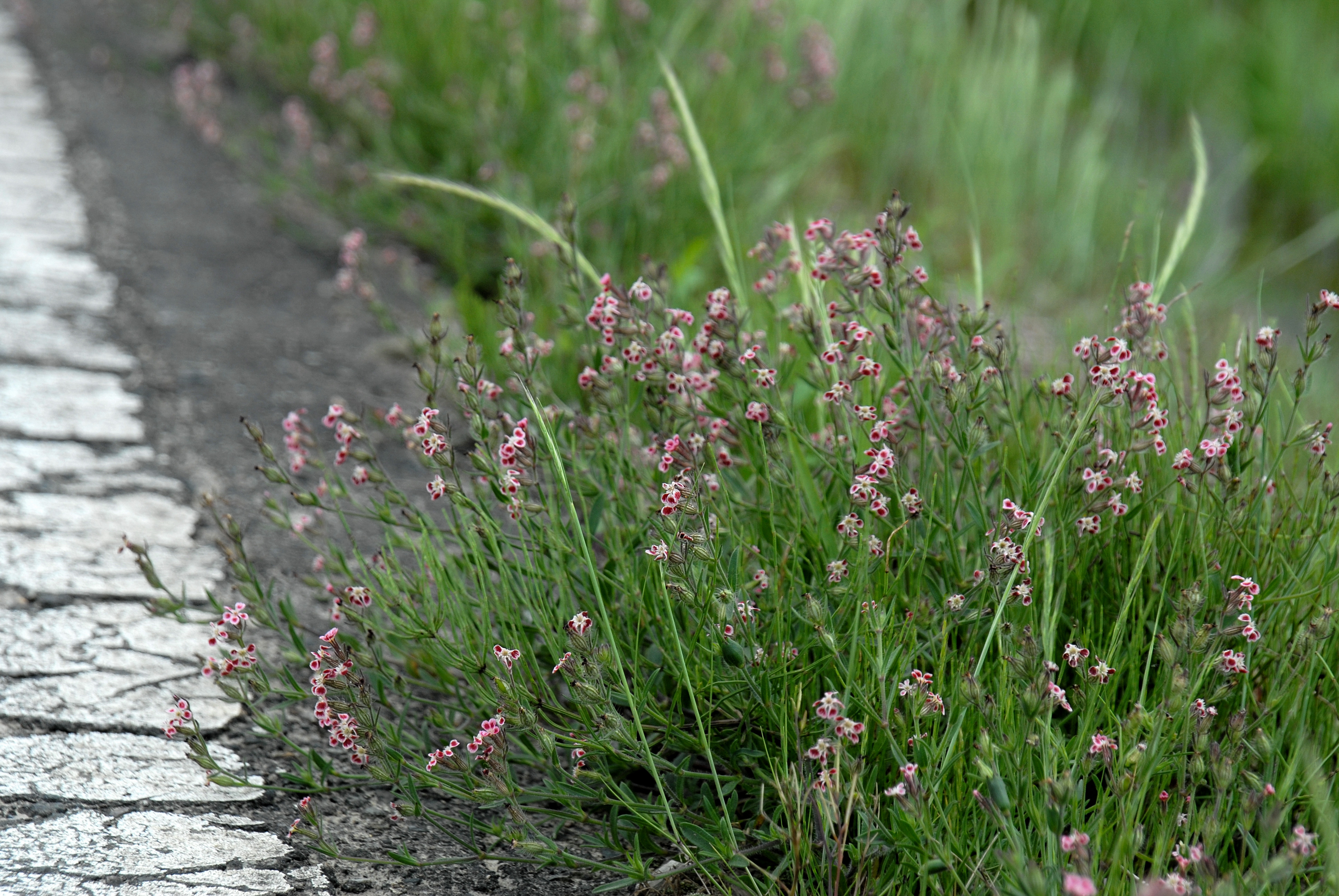 Silene gallica var. quinquevulnera, Niigata-city, Niigata-ken, Nippon